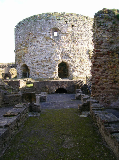 Inner Tower, Camber Castle This was the original tower built by Sir Edward Guldeford in 1514 upgraded and made taller when the rest of the castle was constructed between 1539 and 1544. The castle is currently only open to the public on limited weekends during the summer though the outside is accessible all year round as is peering through the gates and windows.